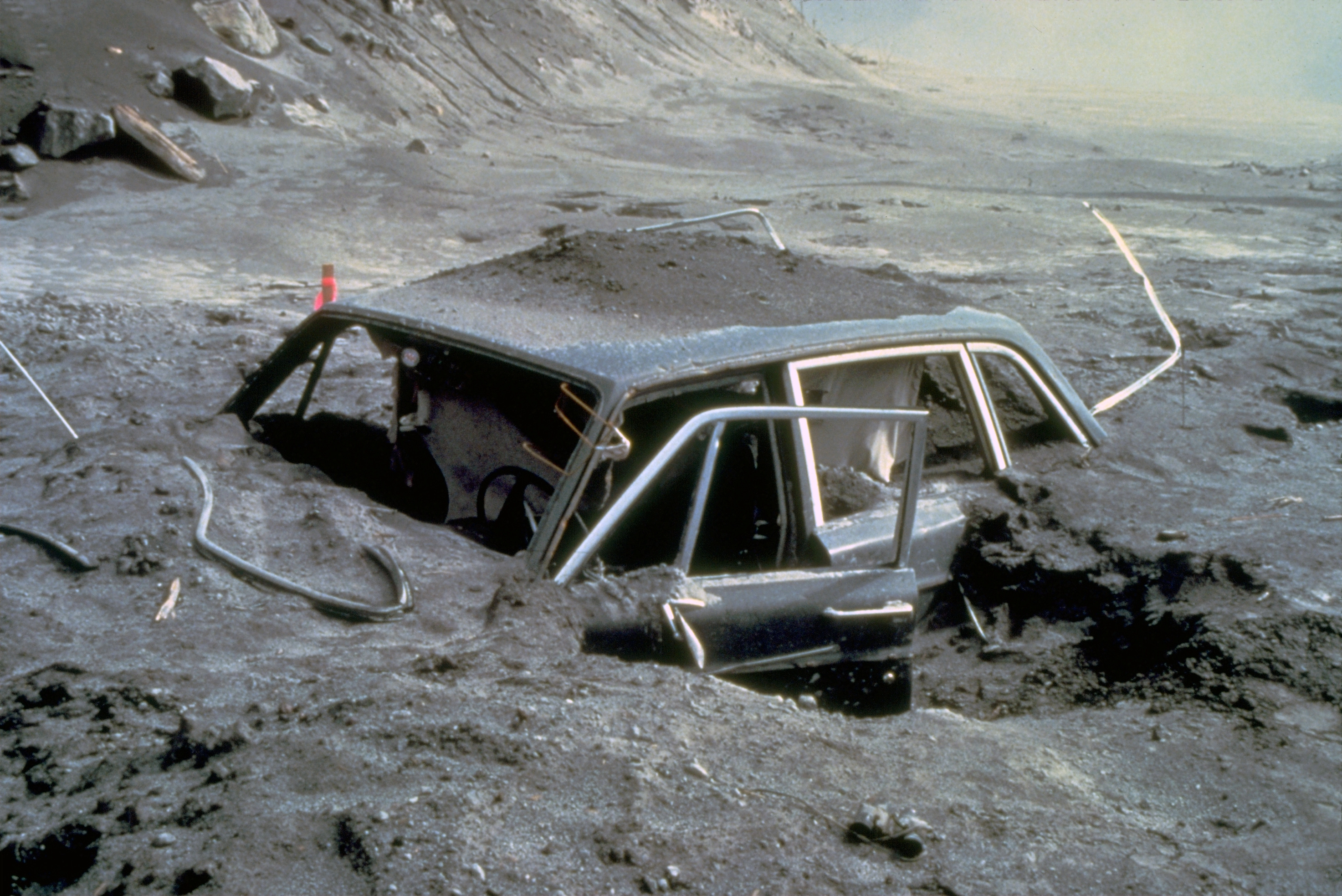 Car after Mount St. Helens 1980 Eruption. Reid Blackburn's (photographer, National Geographic, Vancouver Columbian) car, about 10 miles from Mount St. Helens.